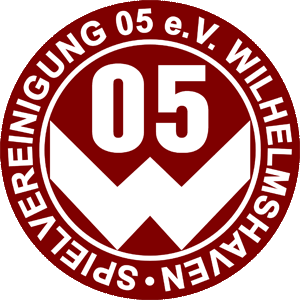 Historical logo of SpVgg Wilhelmshaven, German football team